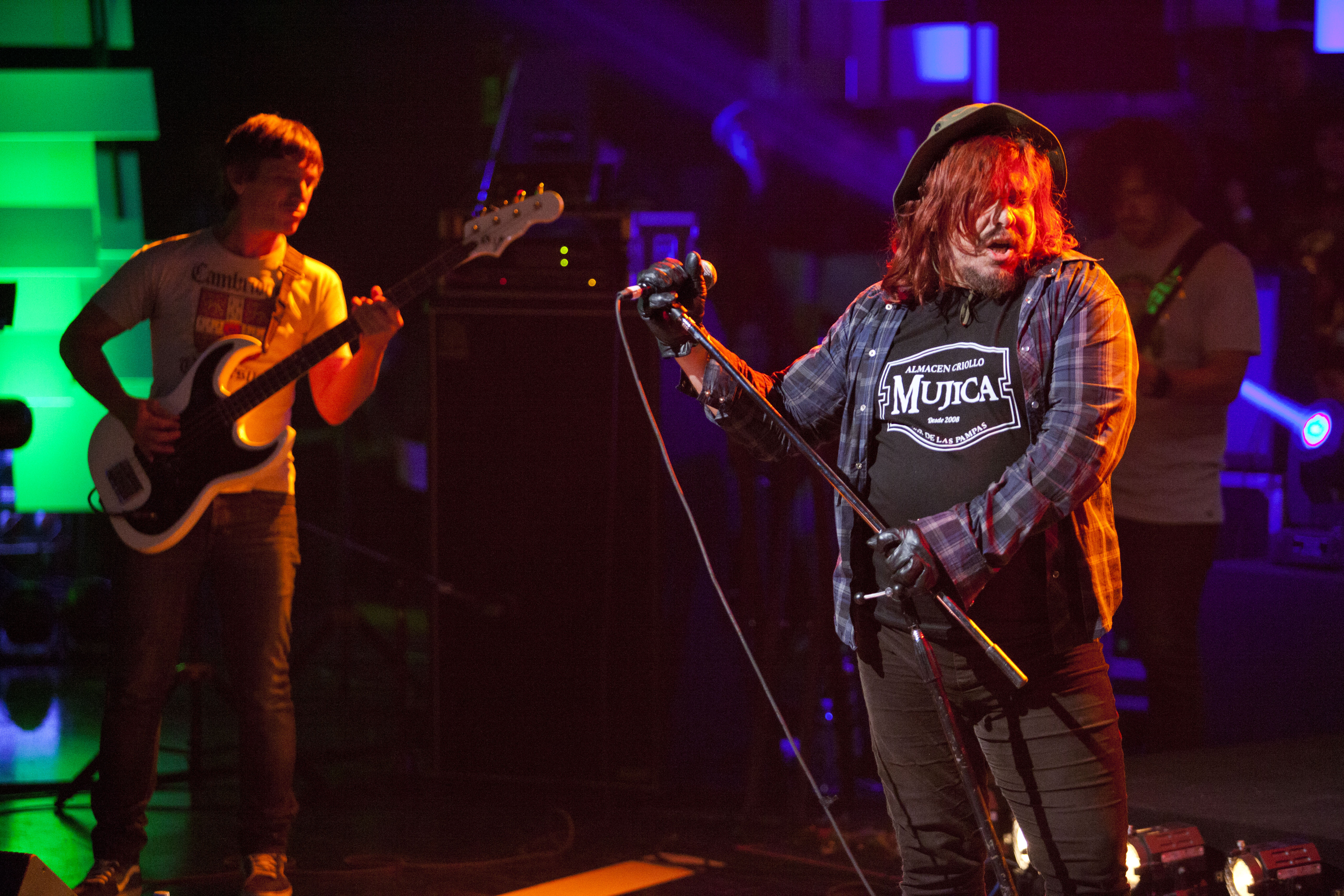 Buenos Aires, 4 de noviembre de 2014 - El Ministerio de Cultura de la Nación, la TV Pública y Radio Nacional Rock realizaron un homenaje a Gustavo Cerati.Fito Páez, Ricardo Mollo, Charly García y Catupecu Machu son algunos de artistas y grupos que grabaron versiones de temas creados por el fundador de Soda Stereo. En el programa "Siempre es hoy", Argentina celebra la obra de Gustavo Cerati.Fotos: Mauro Rico / Ministerio de Cultura de la Nación.